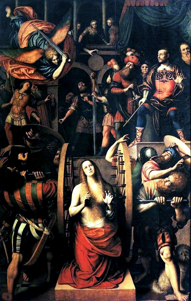 The Martyrdom of Catherine of Alessandrialabel QS:Len,"The Martyrdom of Catherine of Alessandria"label QS:Lit,"Martirio di Santa Caterina d'Alessandria"